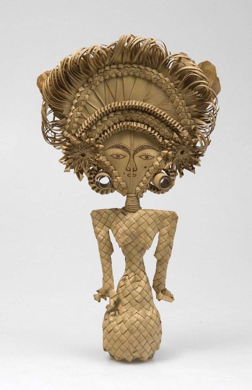 Doll of woven lontar palm-leaf representing the rice goddess Dewi Sri; a symbol of the flourishing of plants and good harvests.